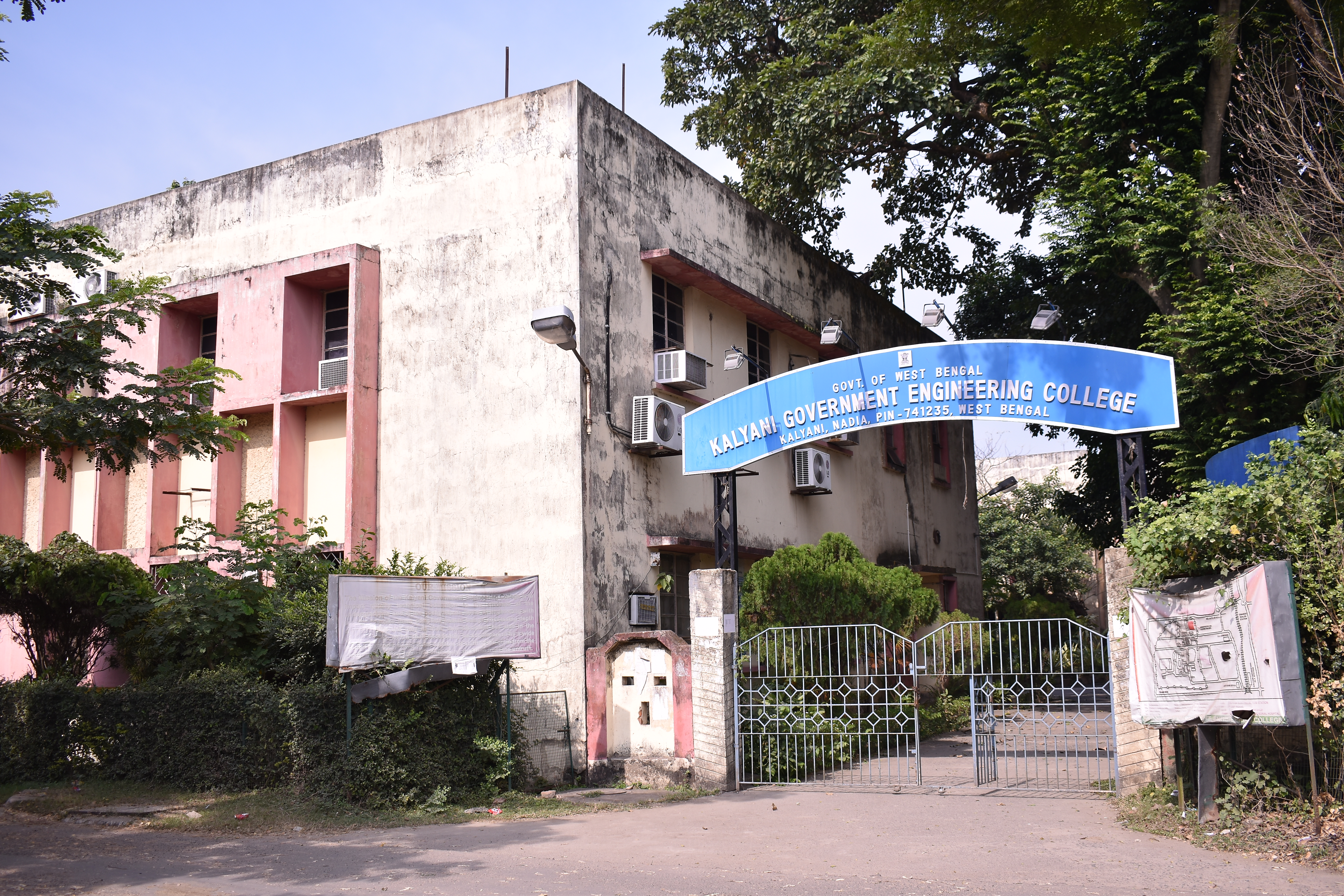 Kalyani Govt. Engineering College, inside the Kalyani university campus, Nadia